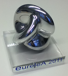 EureleA ([1]) (European Award for Technology Supported Learning) statute showing a torus knot